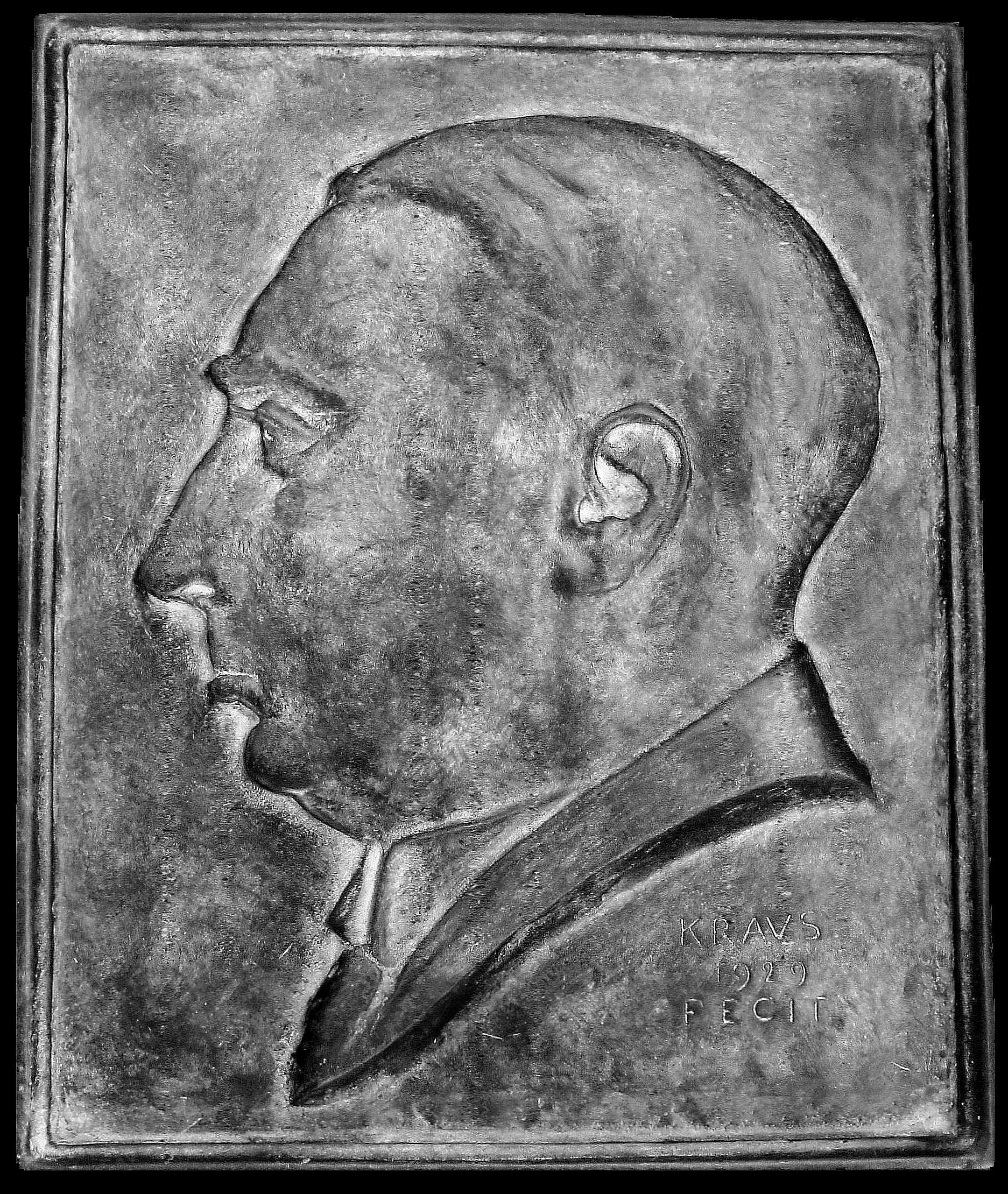 Victor Auburtin, Photograph of tomb slab, German writer and journalist